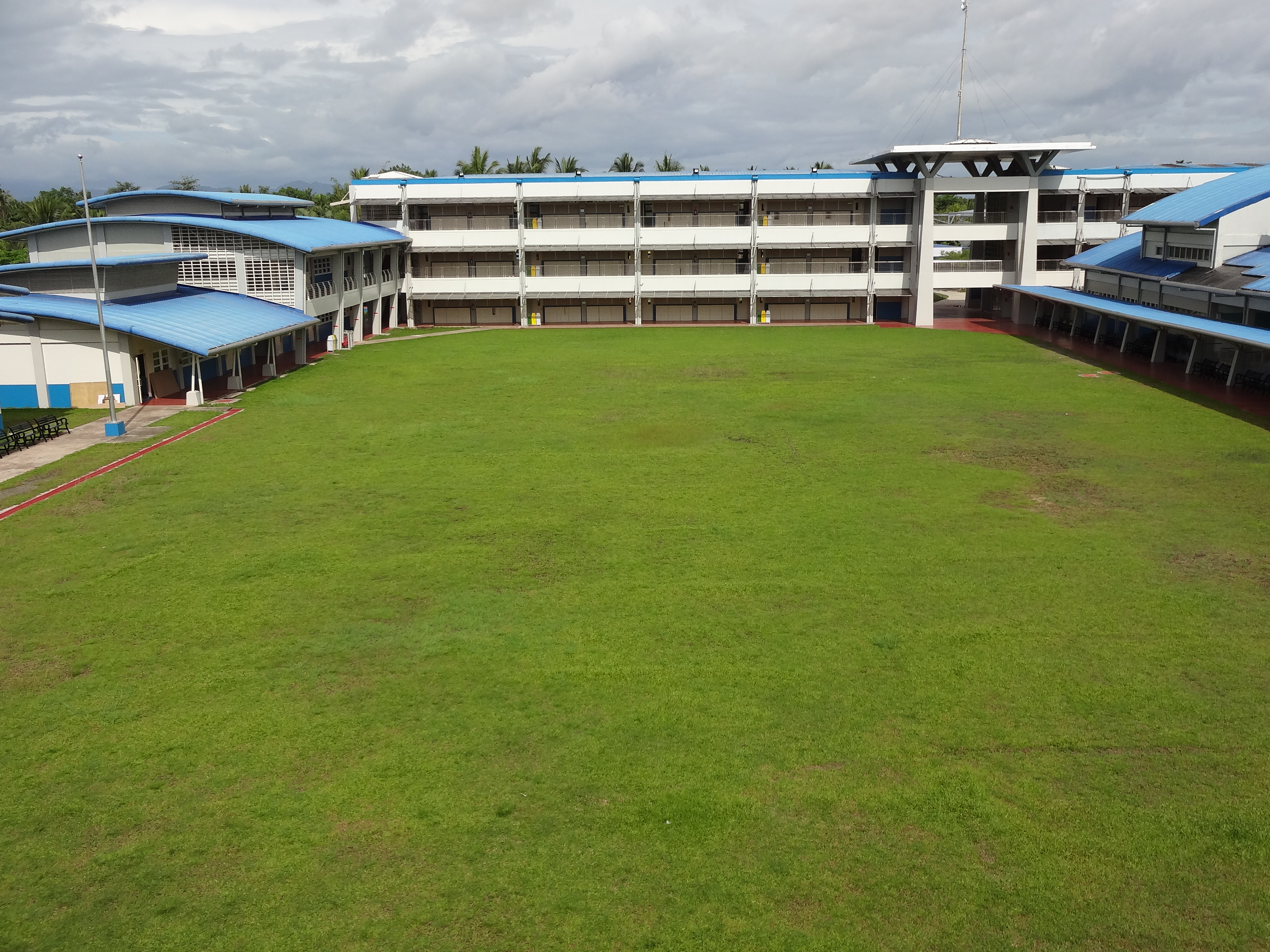 This is my own work. The view of the FSUU Morelos Campus Open Field from Elementary Building.